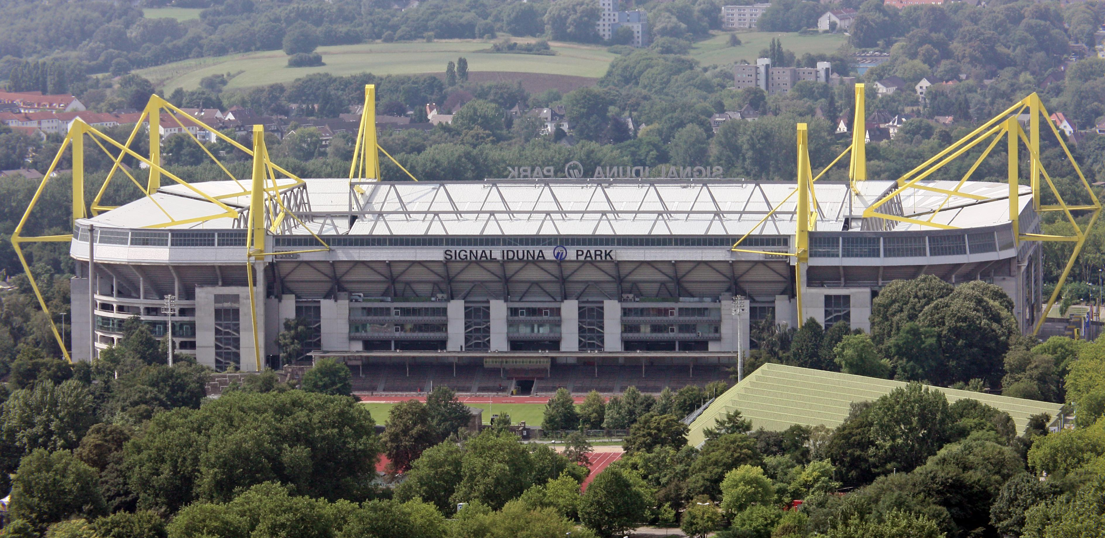 Signal Iduna Park (Westfalenstadion) in Dortmund with a new sign and SI logo, photo taken from Florianturm